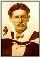 Photgraph of Frank Lee Woodward. This photograph was taken when he was the principal of Mahinda College (1903-1919), Galle, Sri Lanka.